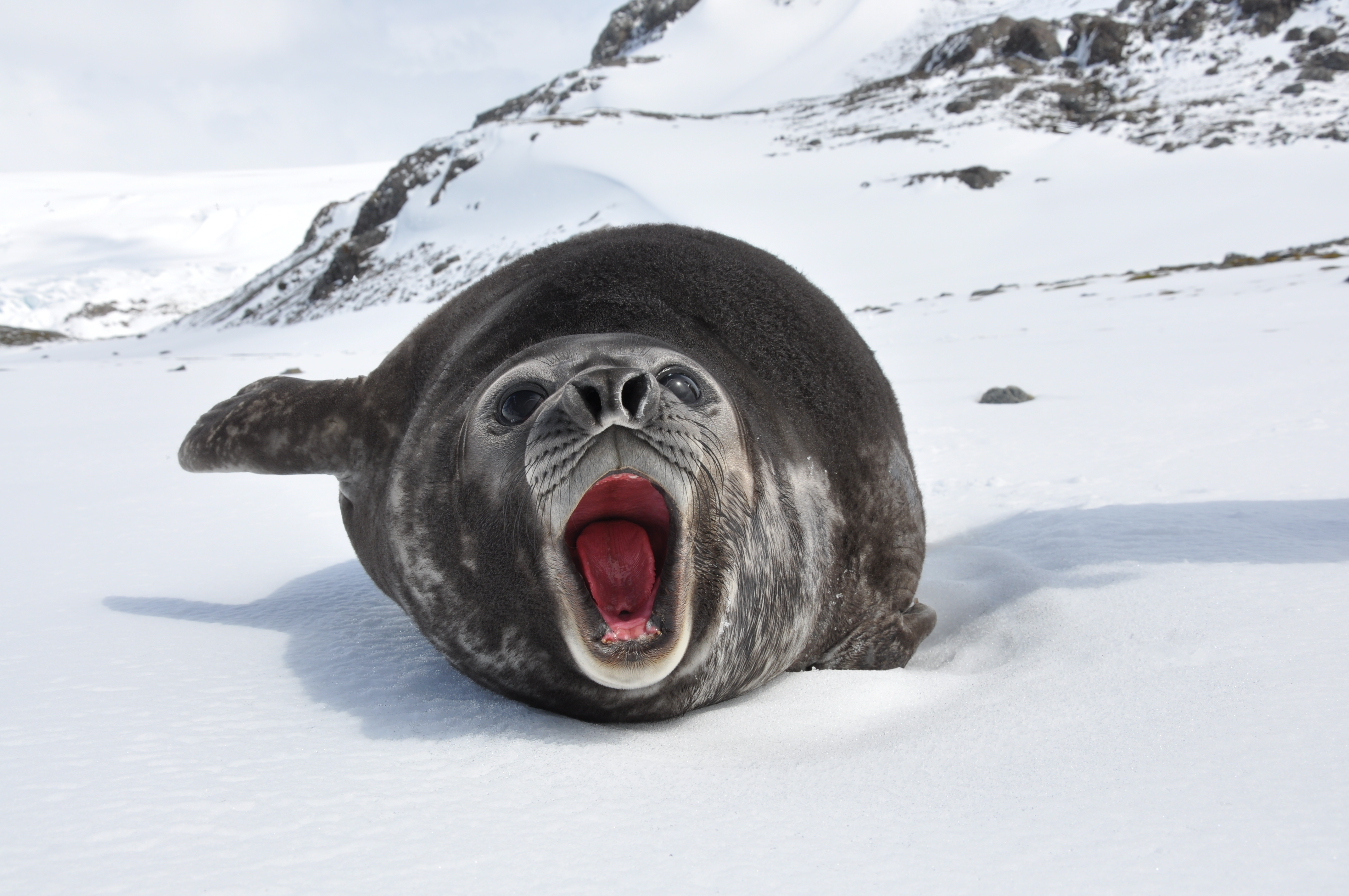 Southern Elephant Seal (Mirounga leonina) (young) in South Georgia.